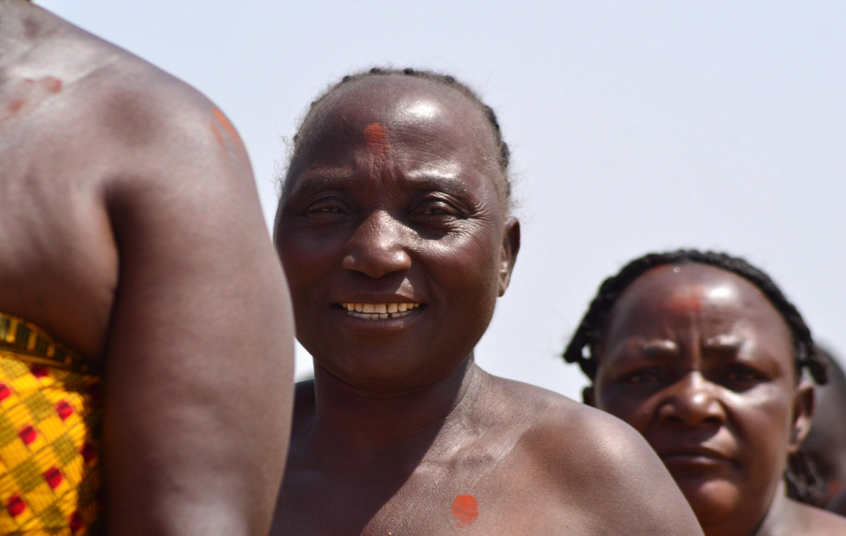 Woman In a cultural troupe at Nawhai Festival in Bokkos LGA, of Plateau State, Nigeria This is an image with the theme "Play" from: Nigeria